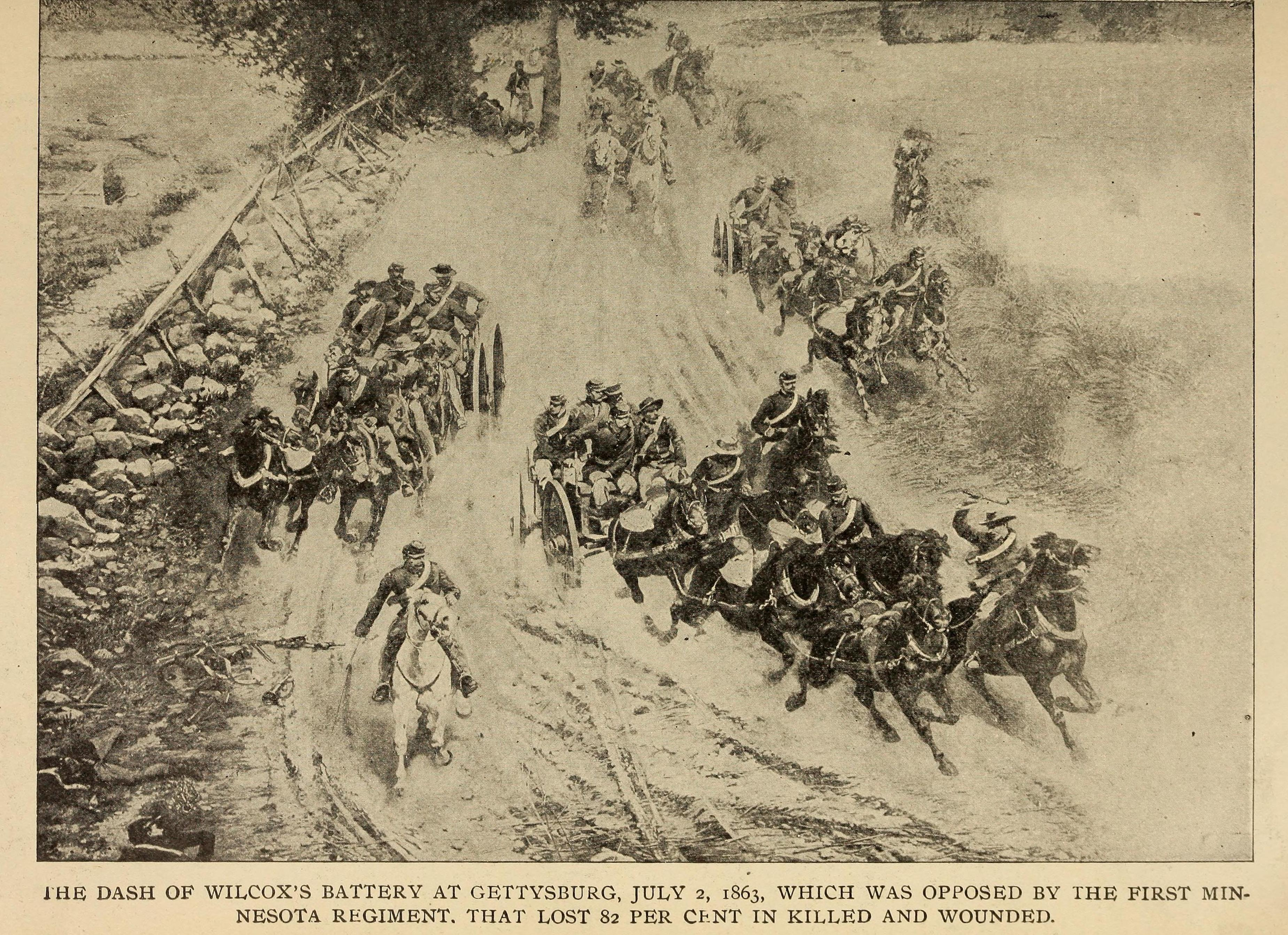 Title: Hero tales of the American soldier and sailor as told by the heroes themselves and their comrades; the unwritten history of American chivalry Year: 1899 (1890s) Authors: Buel, James W. (James William), 1849-1920 Subjects: Spanish-American War, 1898 Publisher: Philadelphia, Pa., Century manufacturing company Text Appearing Before Image: ' Text Appearing After Image: '